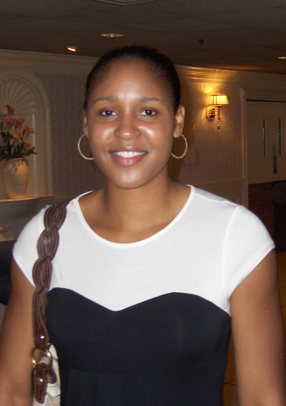 Maya Moore, at Championship Dinner